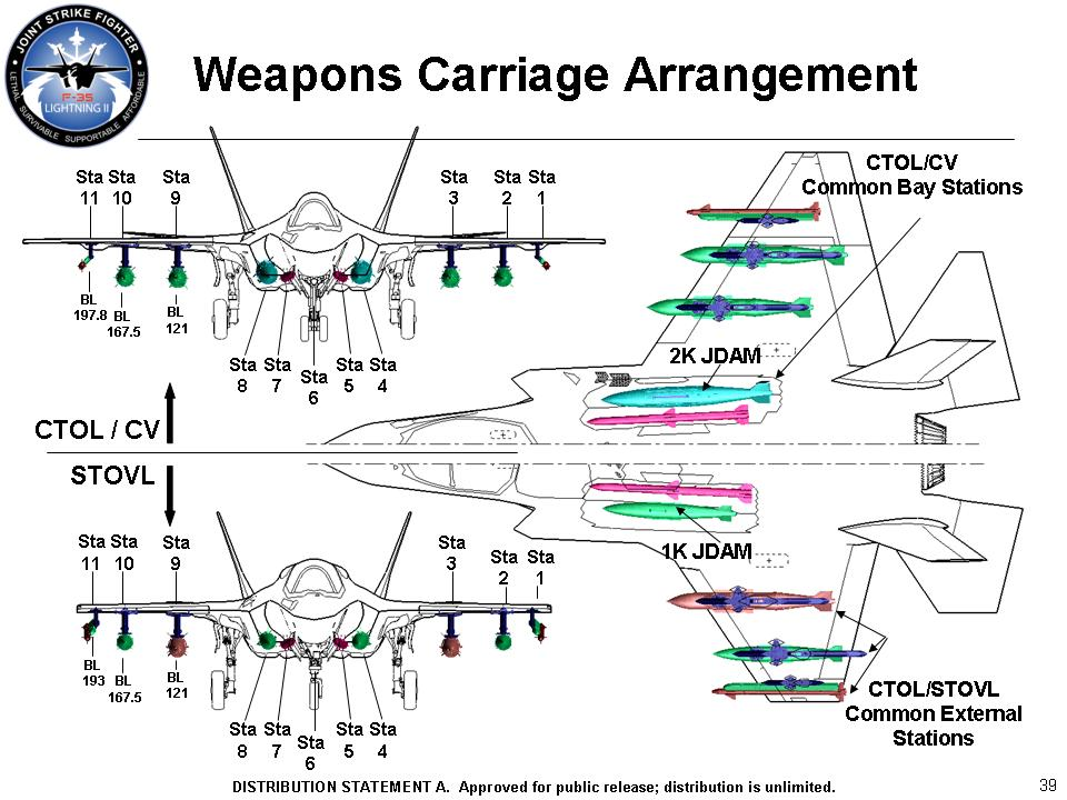 F-35 CTOL/CV/STOVL weapons carriage arrangement